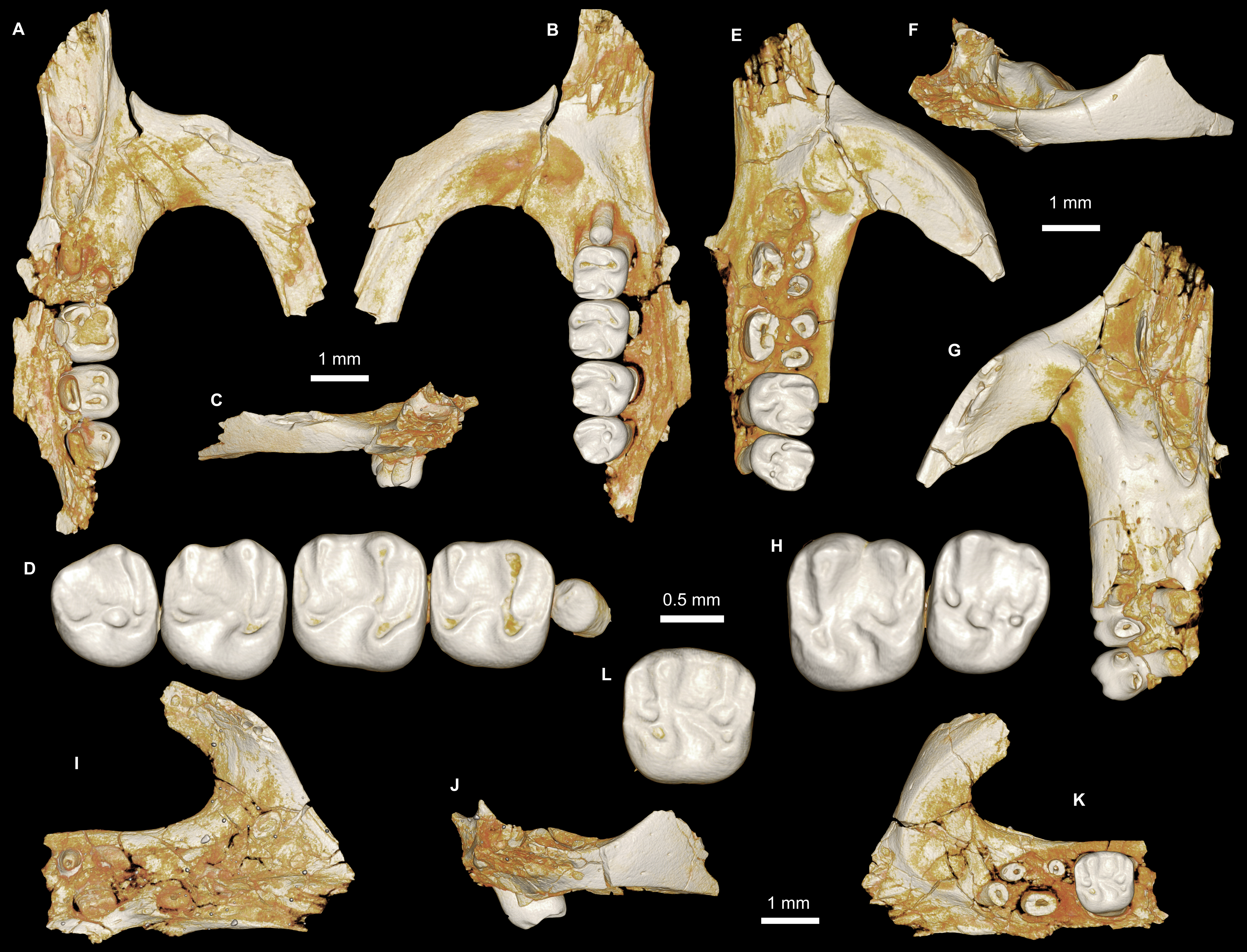 Birkamys, maxillae of Birkamys korai; A-D: DPC 17457 Right partial maxilla with dP3-M3, in A: dorsal, B: ventral, C: anterior views and D: occlusal surface; E-H: DPC 9276 left partial maxilla with M2-3 and alveoli for dP3-4 and M1, in E: ventral, F: anterior, G: dorsal views and H: occlusal surface; I-L: DPC 15625 left partial maxilla with M1 and alveoli for dP3-4, in I: dorsal, J: anterior, K: ventral views and L: occlusal surface; locality L-41, Jebel Qatrani Formation, Fayum, northern Egypt, latest Eocene